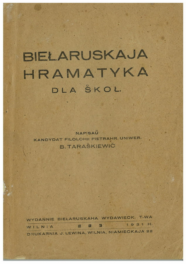 The cover of the sixth (?) edition of „Biełaruskaja gramatyka dla škoł“ (en: Belarusian Orthography for Schools) by Branisłaŭ Taraškievič. Published in the Belarusian Latin orthography. Published in Vilnius, 1929.